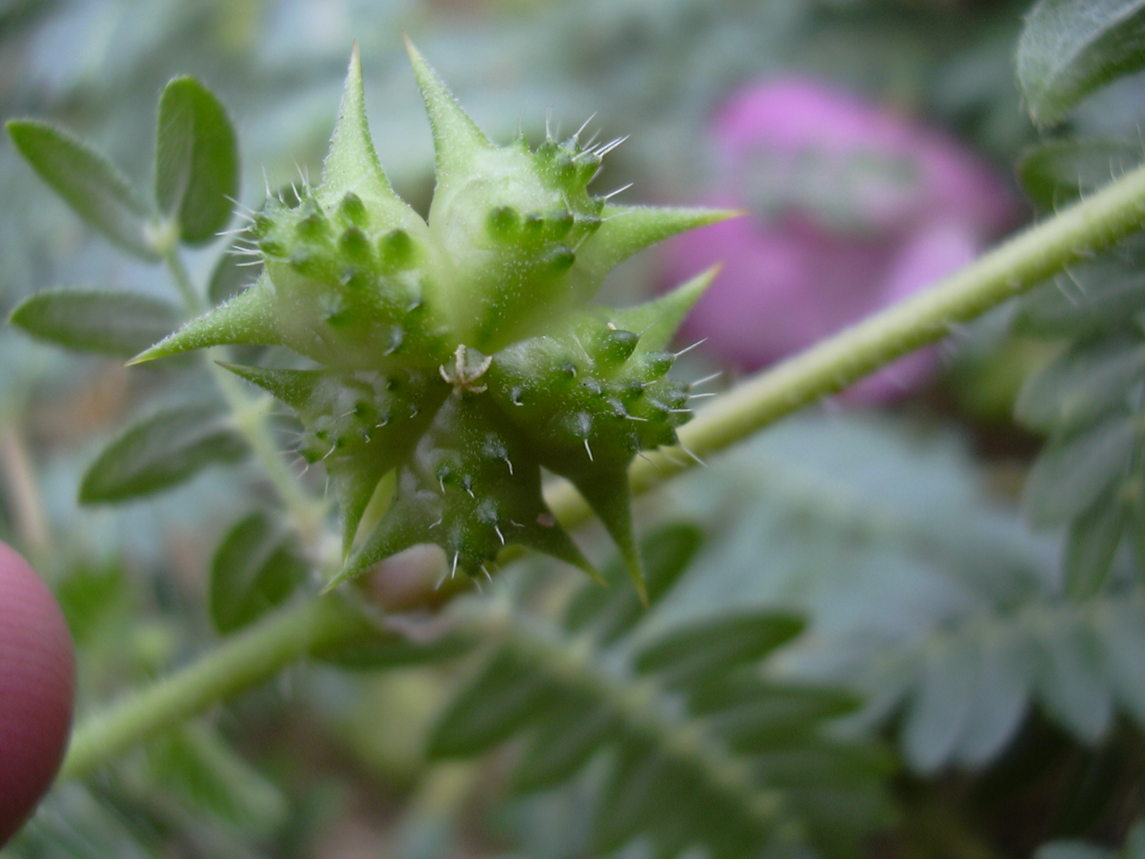 Tribulus terrestris (fruit). Location: Maui, Kahului